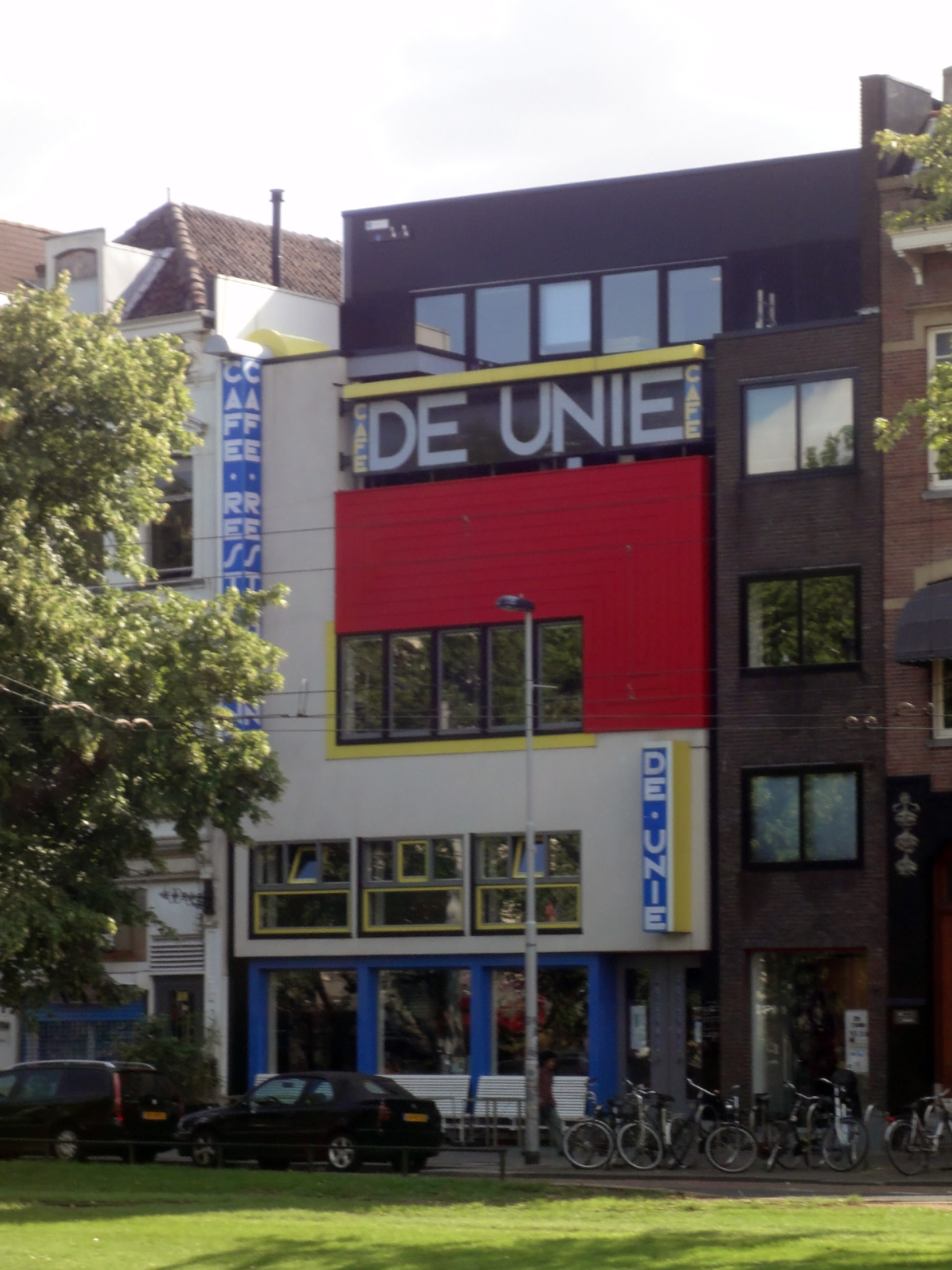 after being renovated in late 2010, the red is RED again